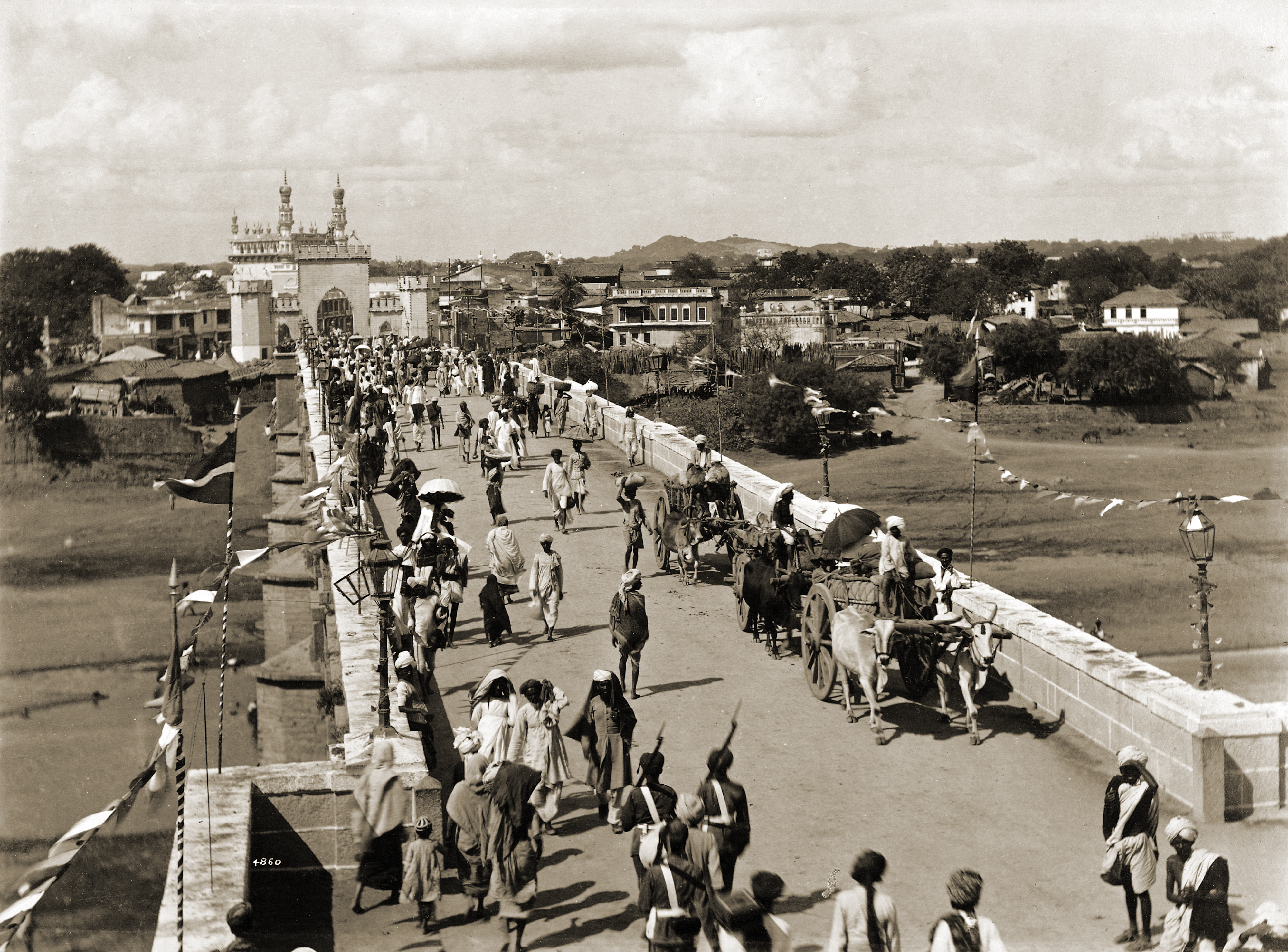 Photograph of the entrance bridge to the city of Hyderabad, Andhra Pradesh, from the Curzon Collection: 'Views of HH the Nizam's Dominions, Hyderabad, Deccan, 1892'.